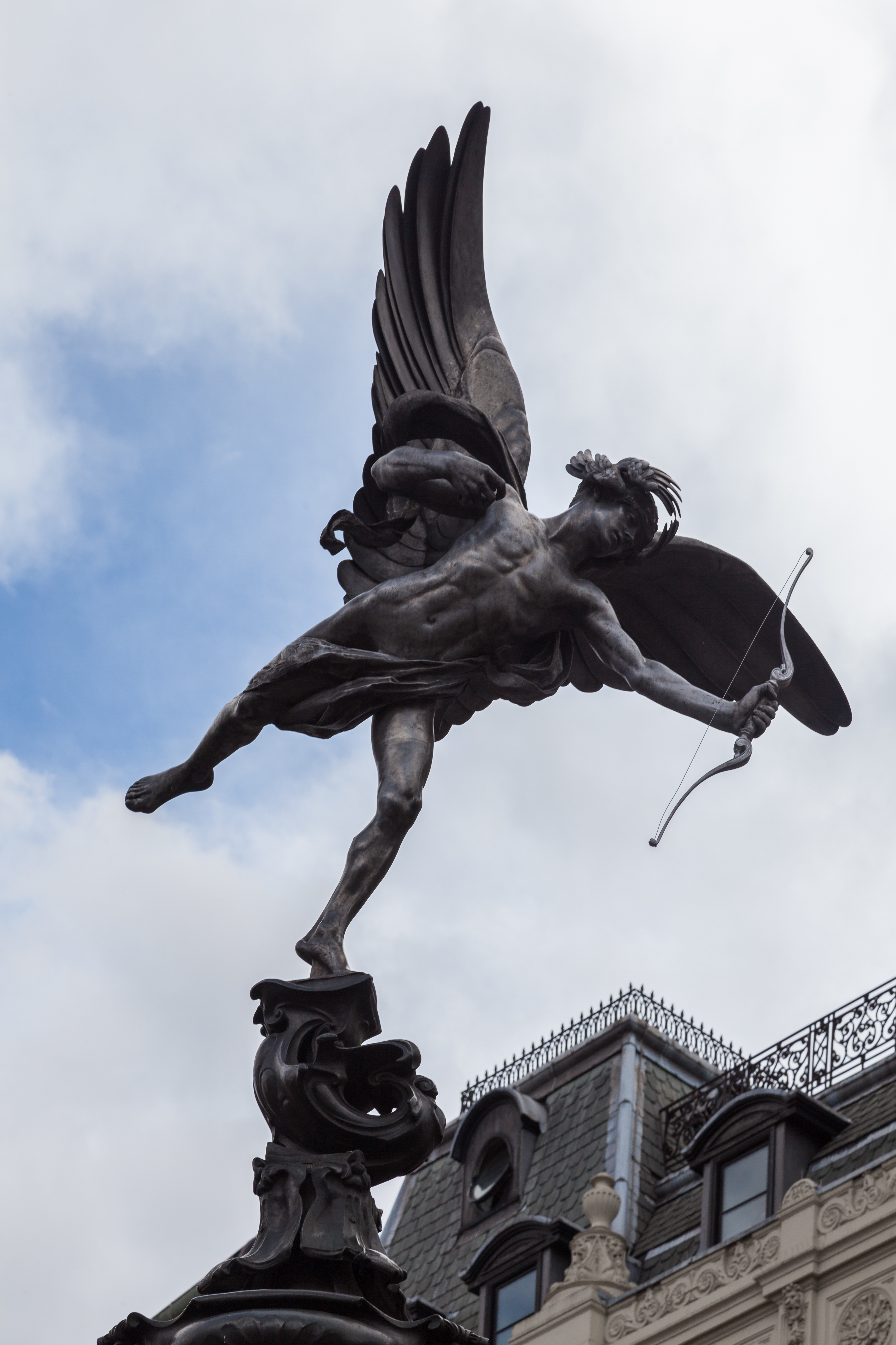 Eros Fountain, Piccadilly Circus, London, England